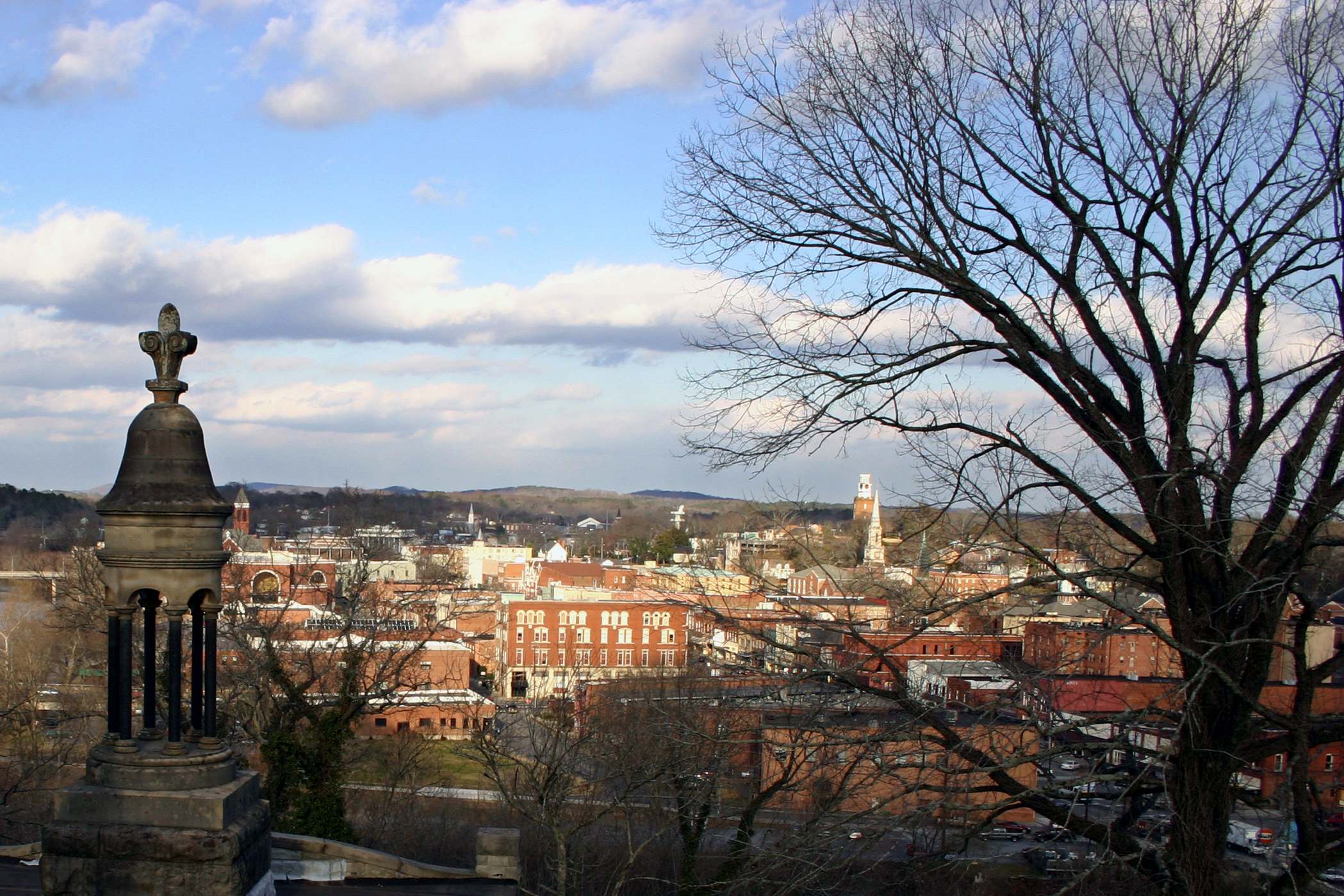 A view of Rome, Georgia from the historic Myrtle Hill cemetery